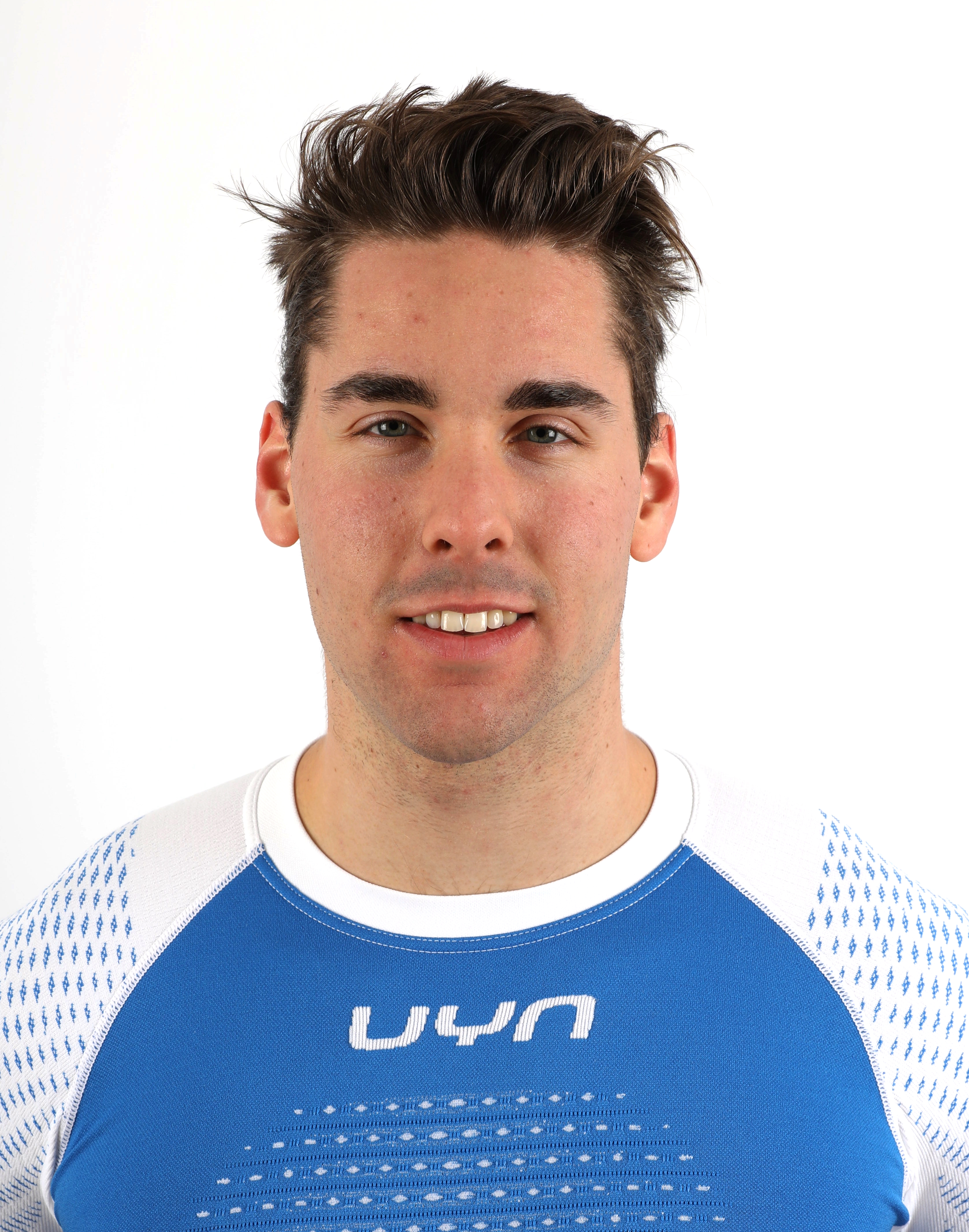 Athletes' photo project at the 2018/19 Innsbruck-Igls Luge World Cup: Fabian Malleier (Italy)